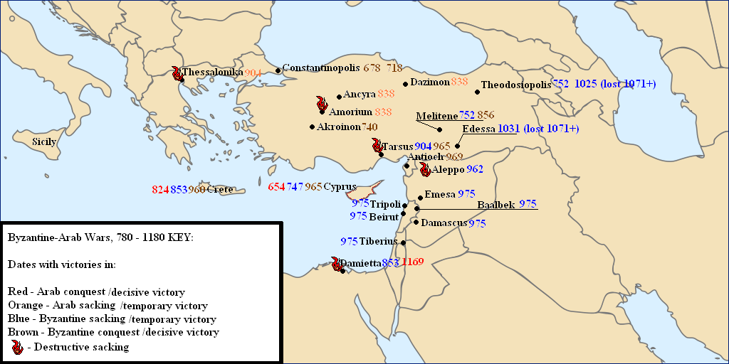 A map showing more battles between the Byzantines and the Arabs from 780 to 1180 AD